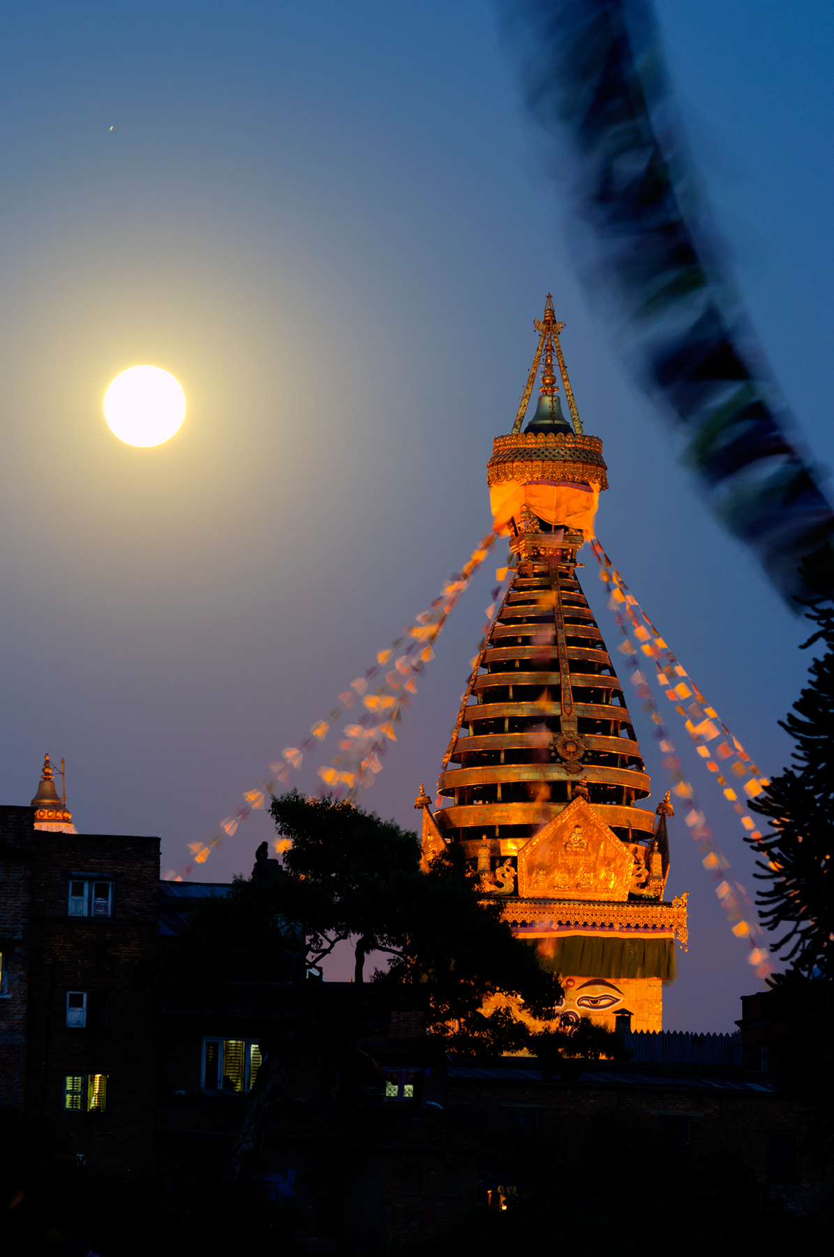 Swayambhunath (Devanagari: स्वयम्भूनाथ स्तुप; sometimes romanized Swoyambhunath) is an ancient religious complex atop a hill in the Kathmandu Valley, west of Kathmandu city. It is also known as the Monkey Temple.Swayambhunath, is among the oldest religious sites in Nepal. According to the Gopālarājavaṃśāvalī Swayambhunath was founded by the great-grandfather of King Mānadeva (464-505 CE), King Vṛsadeva, about the beginning of the 5th century CE. This seems to be confirmed by a damaged stone inscription found at the site, which indicates that King Mānadeva ordered work done in 640 CE. नेपाली: स्यवम्भूनाथ काठमाडौं उपत्यकाको पश्चिममा अवस्थित एक प्रशिद्ध बौद्ध मन्दिर(स्तुप) हो । जसको निर्माण पाँचौ शताब्दीमा राजा मानदेवले गर्न लाएका हुन् ।